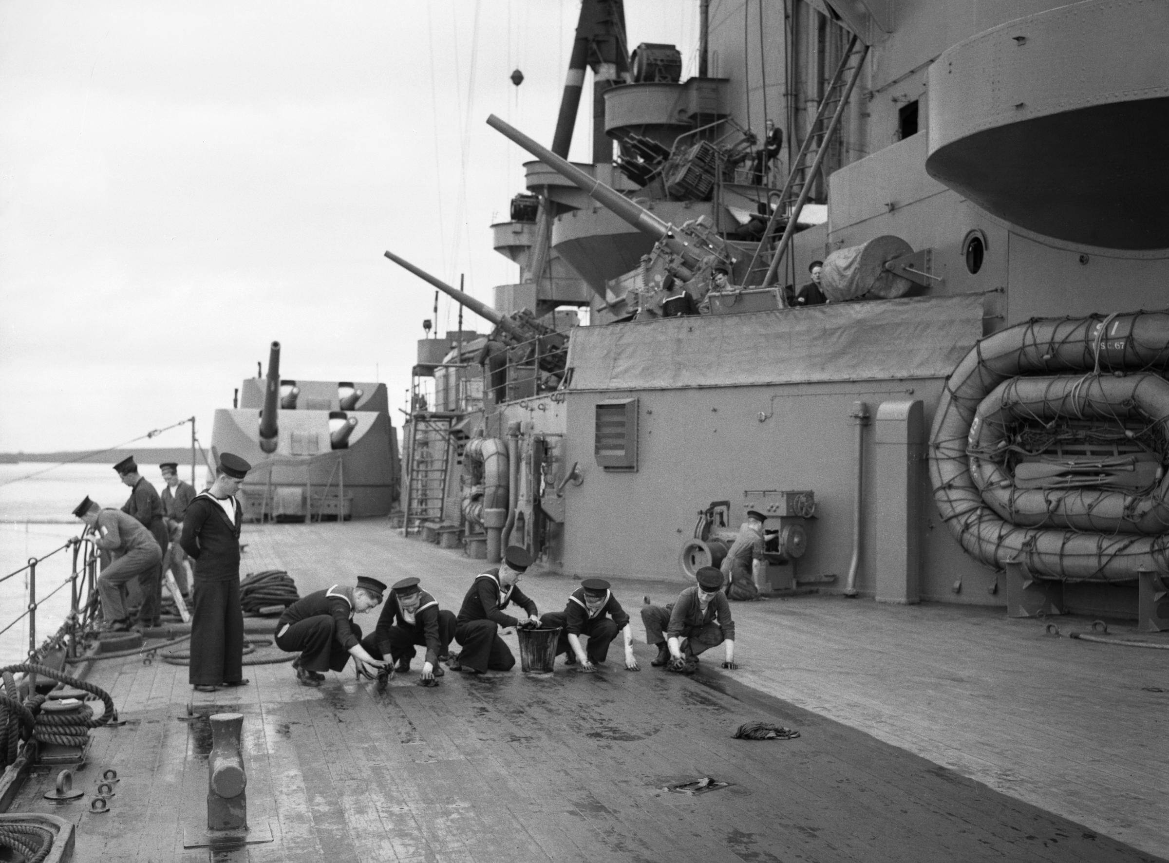 Sailors scrubbing the deck on board HMS RODNEY, 1940. Sailors on hands and knees scrubbing the deck on board HMS RODNEY.